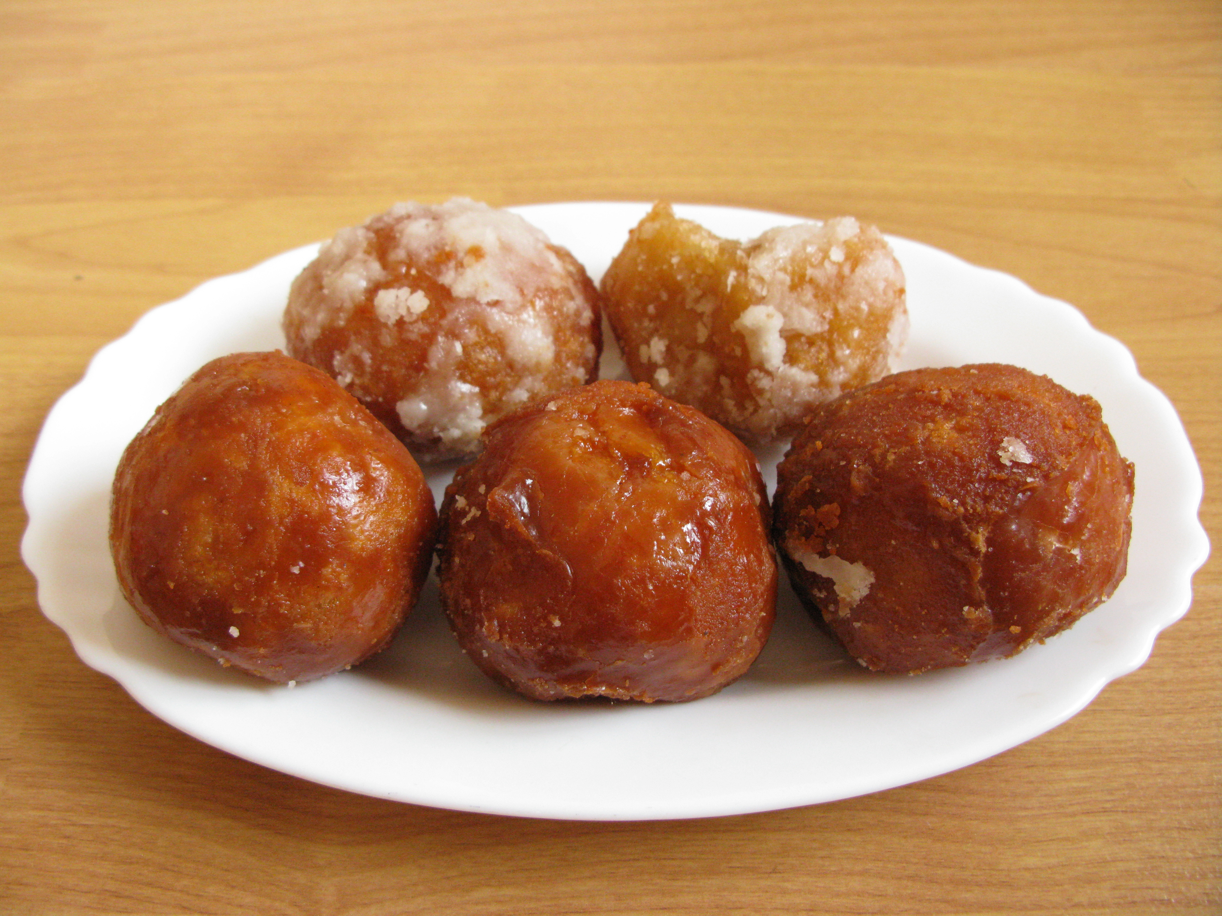 Vietnamese-style donuts